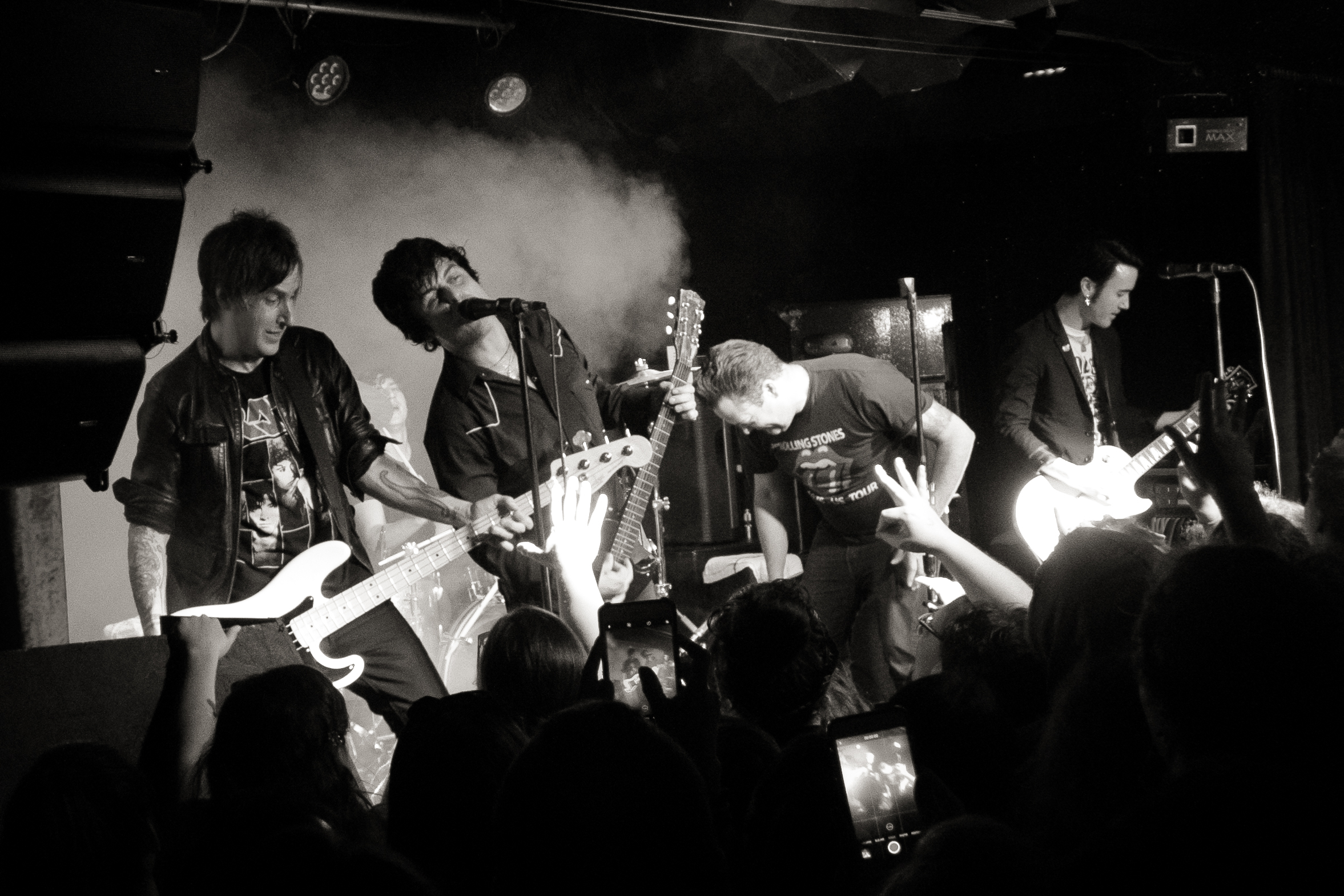 Armstrong performing with the band The Longshot in 2018.